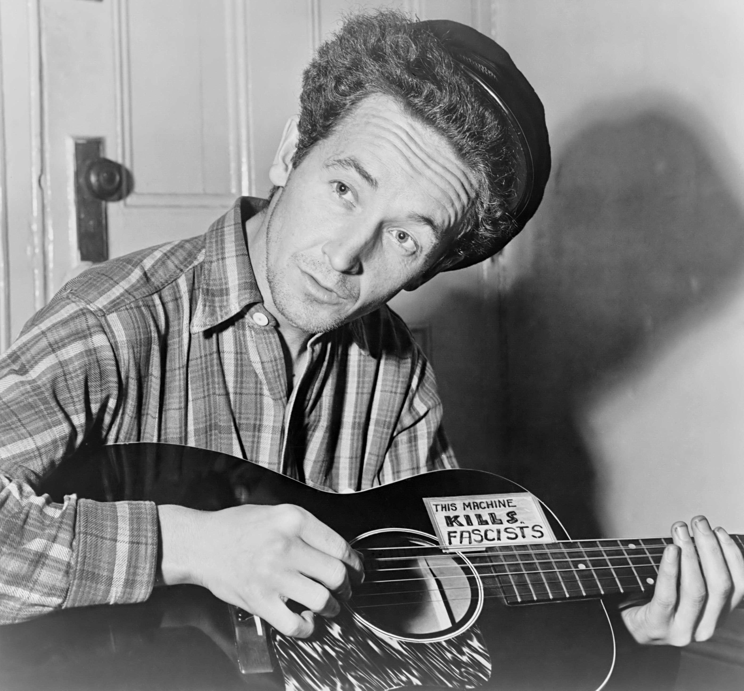 Title: Woody Guthrie, half-length portrait, seated, facing front, playing a guitar that has a sticker attached reading: This Machine Kills Fascists